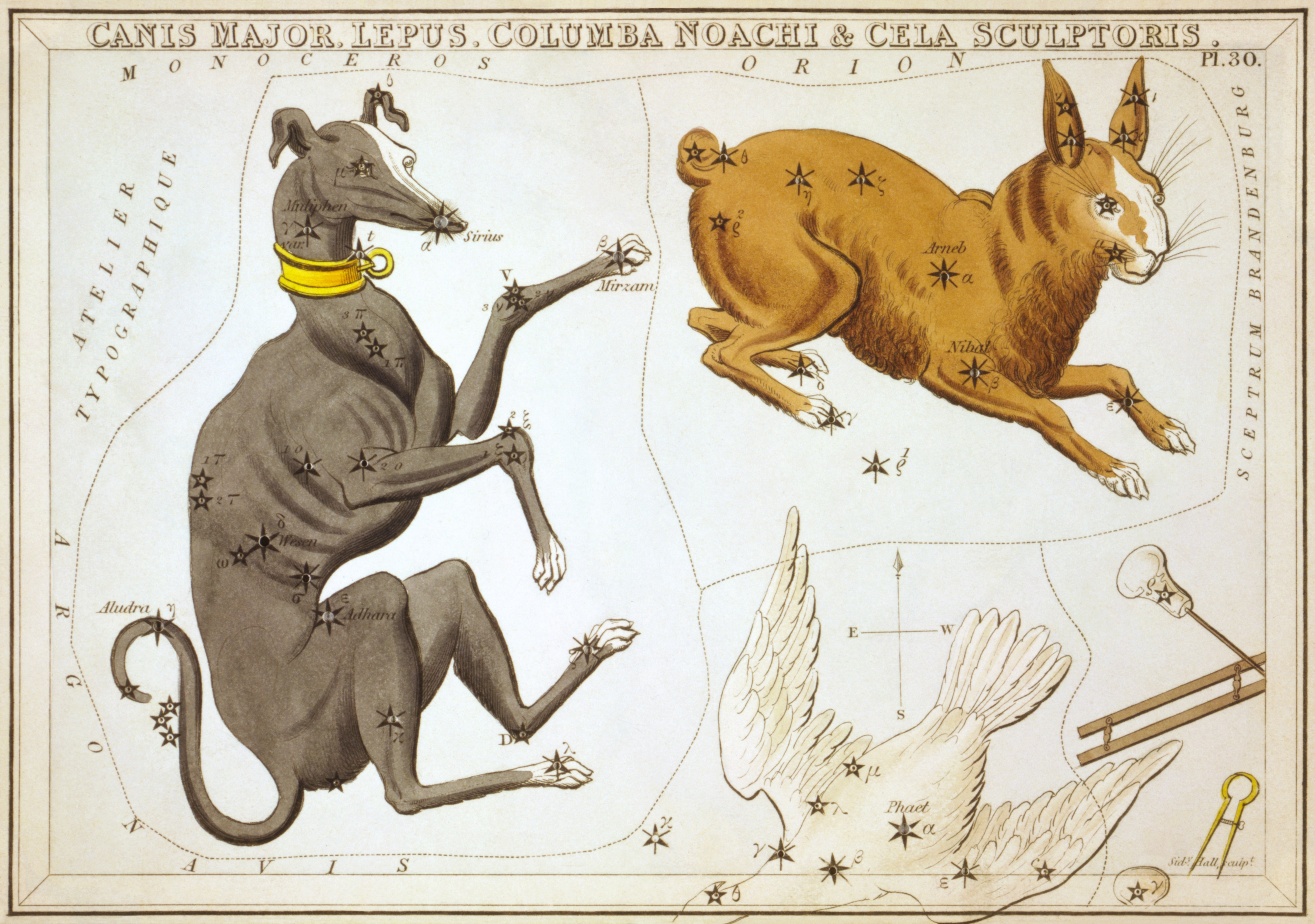 "Canis Major, Lepus, Columba Noachi & Cela Sculptoris", plate 30 in Urania's Mirror, a set of celestial cards accompanied by A familiar treatise on astronomy ... by Jehoshaphat Aspin. London. Astronomical chart, 1 print on layered paper board : etching, hand-colored.